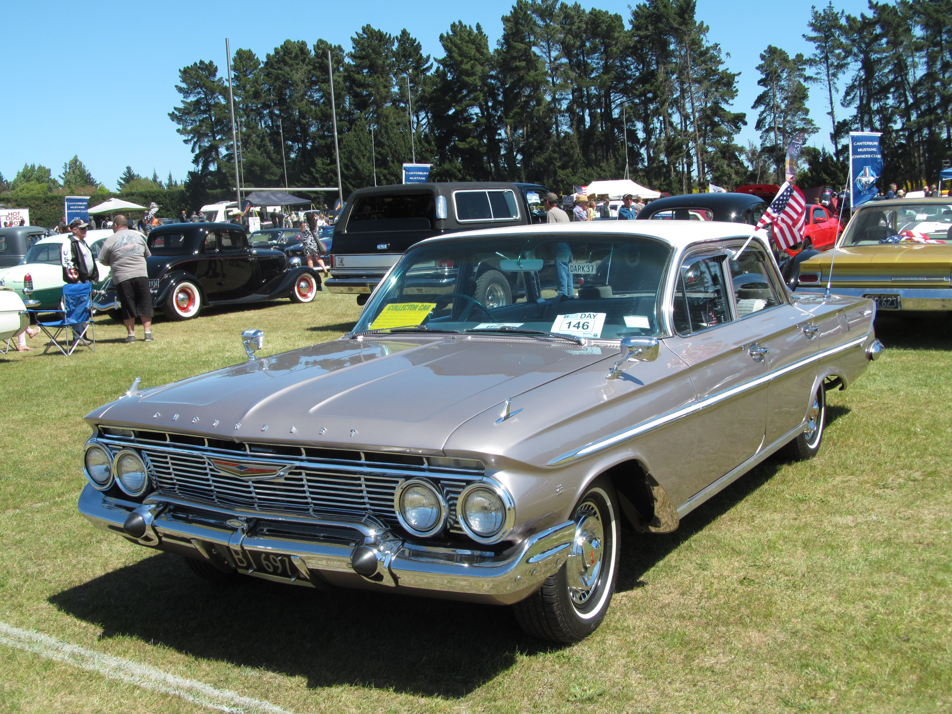 An absolutely fabulous NZ sold Bel Air, first registered here on 18th October 1961. See how nice they look when they're this original??